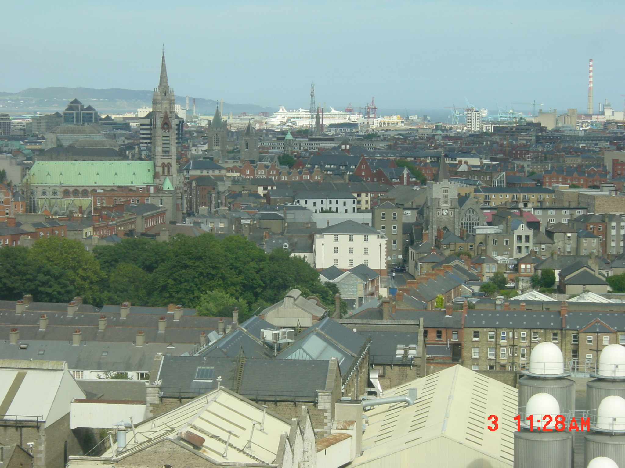 A view of Dublin from the top floor of Guinness Storehouse